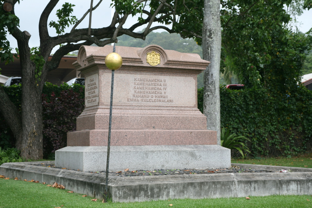 When the new mausoleum was built at Mauna ‘Ala, the ancient remains from along with the more recent deceased members of the Kamehameha family, were moved from the grounds of ‘Iolani Palace, up to Nu‘uanu.